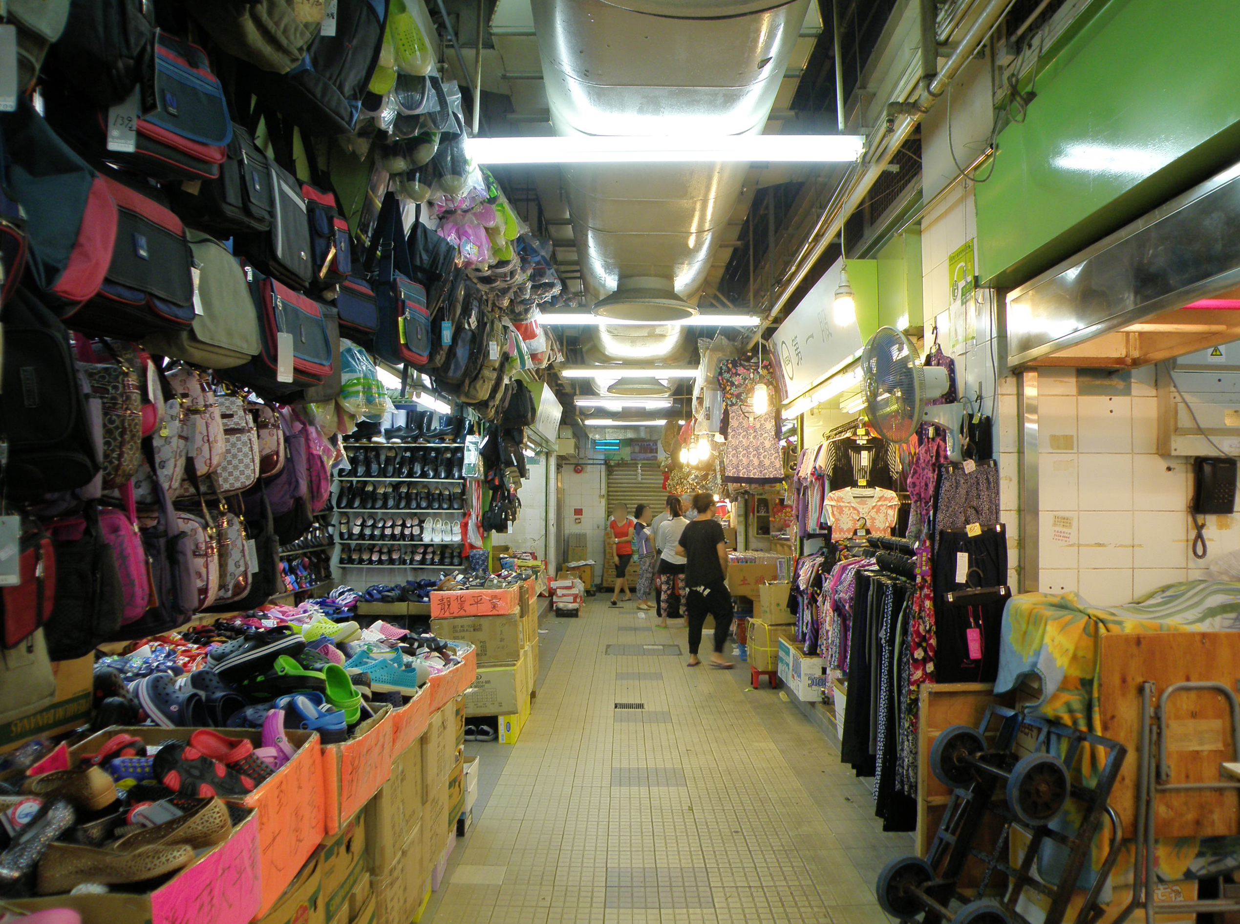 Kai Tin Market in Lam Tin, Hong Kong.